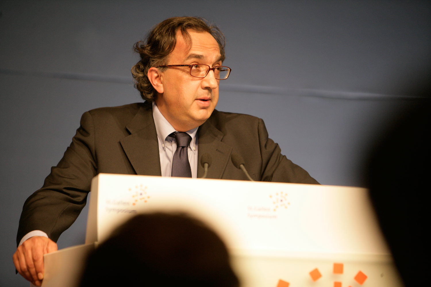 Sergio Marchionne in May 2006 at the 36. St. Gallen Symposium at the University of St. Gallen